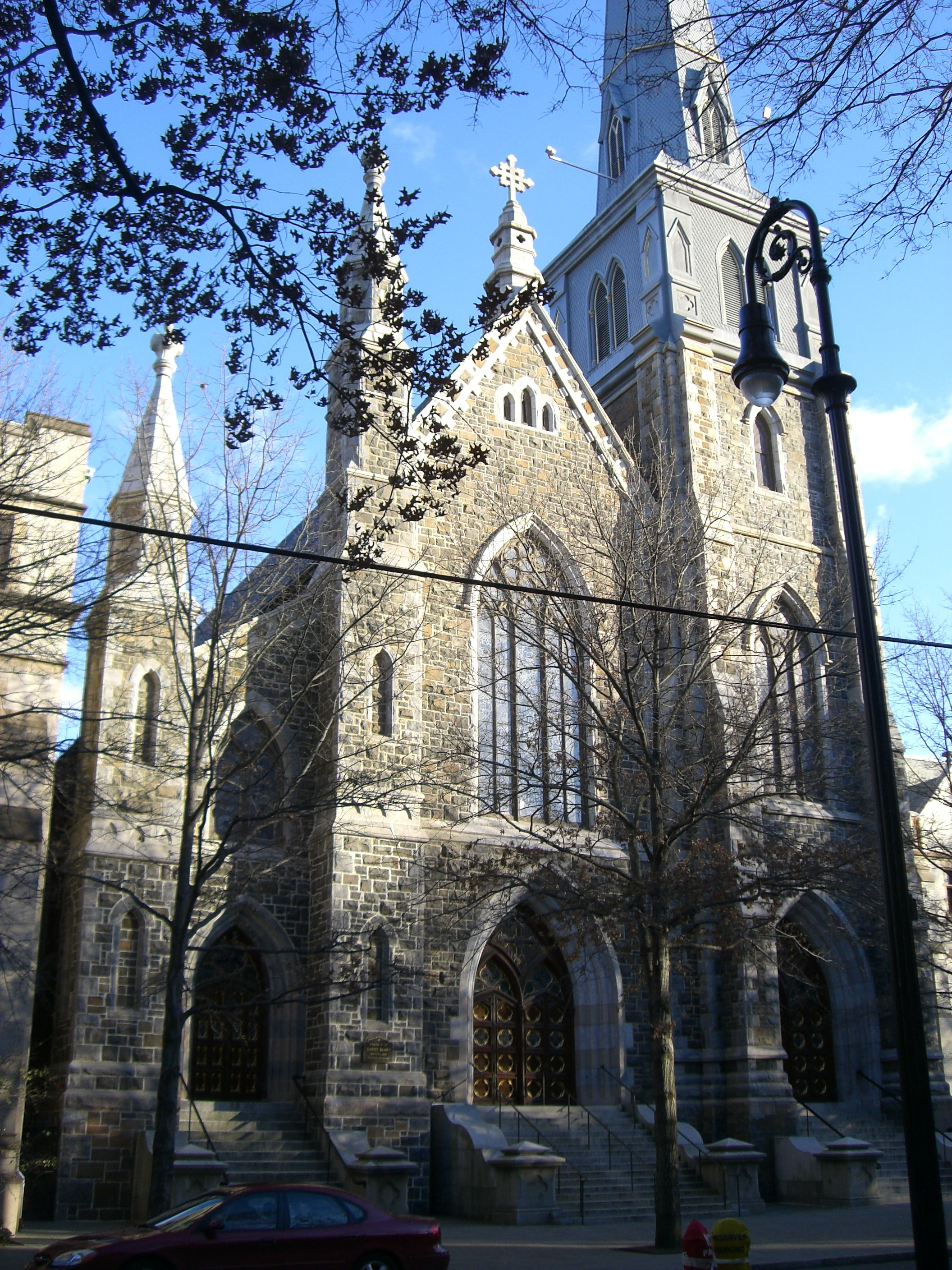 New Haven St. Mary's This church at 5 Hillhouse Avenue was dedicated in 1874. It was designed by the eminent architect James Murphy of Providence, Rhode Island.--Davidt8 (talk) 01:37, 29 January 2011 (UTC)